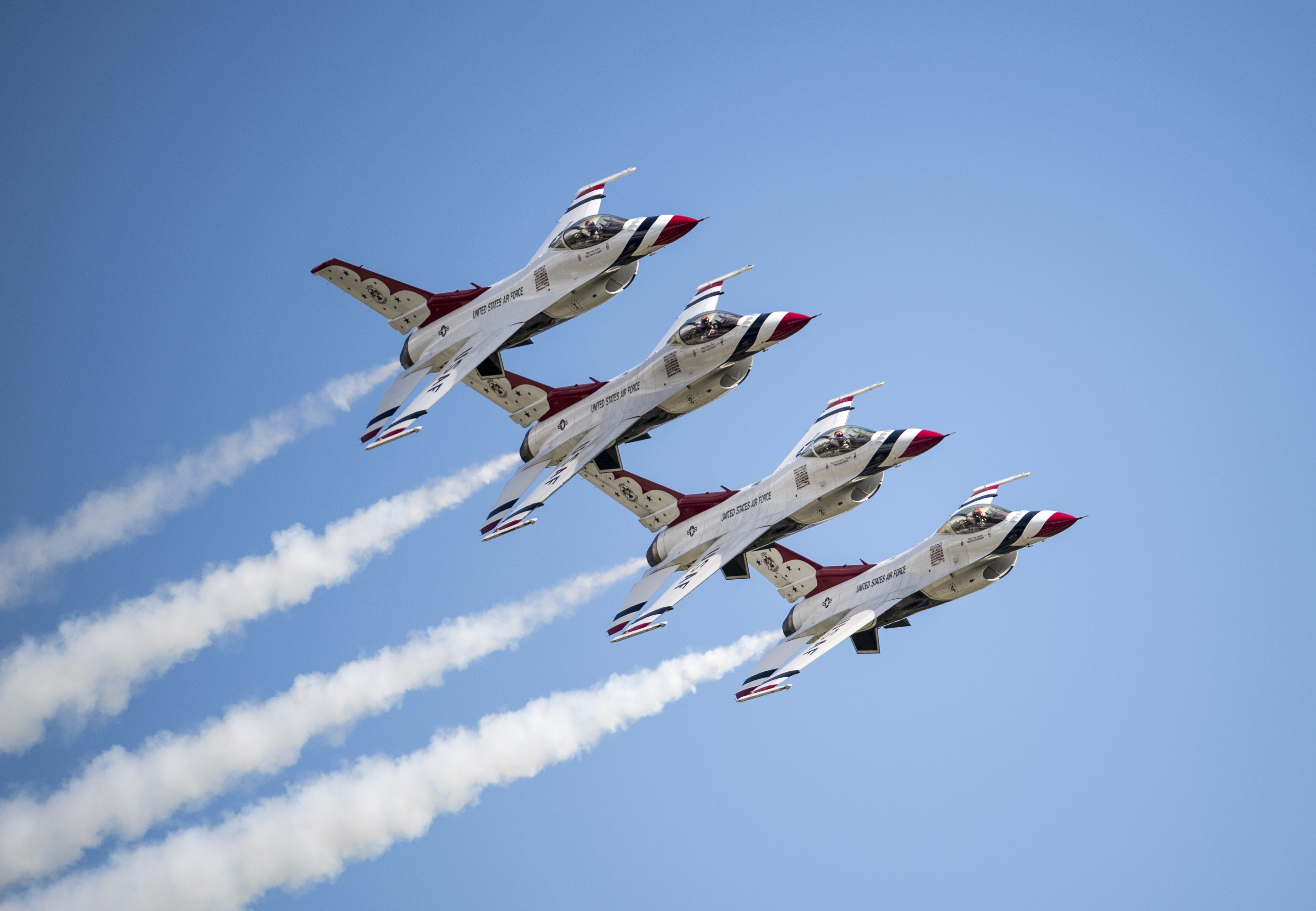 The U.S. Air Force Thunderbirds perform the echelon pass in review maneuver during the Wings over Pittsburgh air show May 13, 2017, in Coraopolis, Pa. (U.S. Air Force photo/Staff Sgt. Jason Couillard)